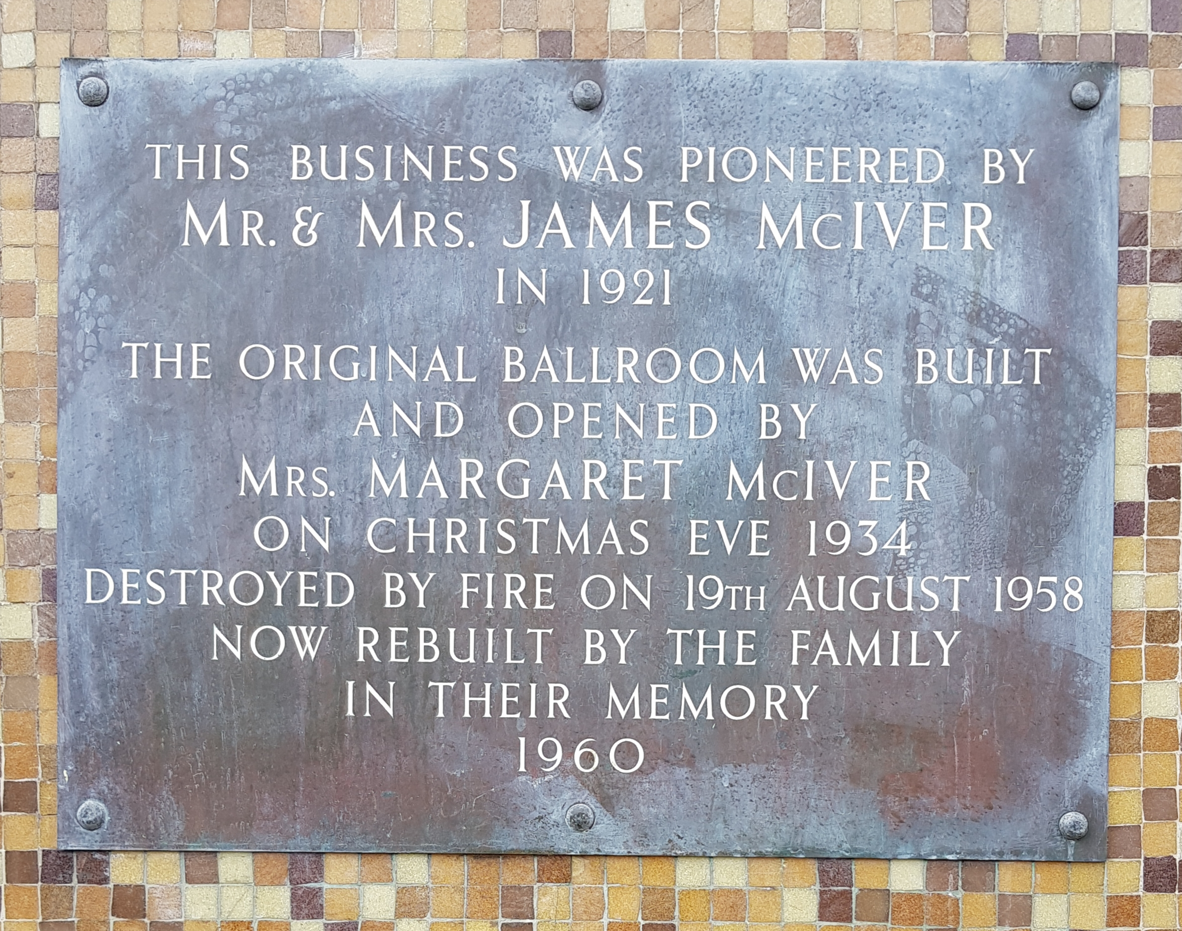 Plaque dedicated to Maggie and James McIver, founders of the Barras and Barrowland Ballrooms in Glasgow.